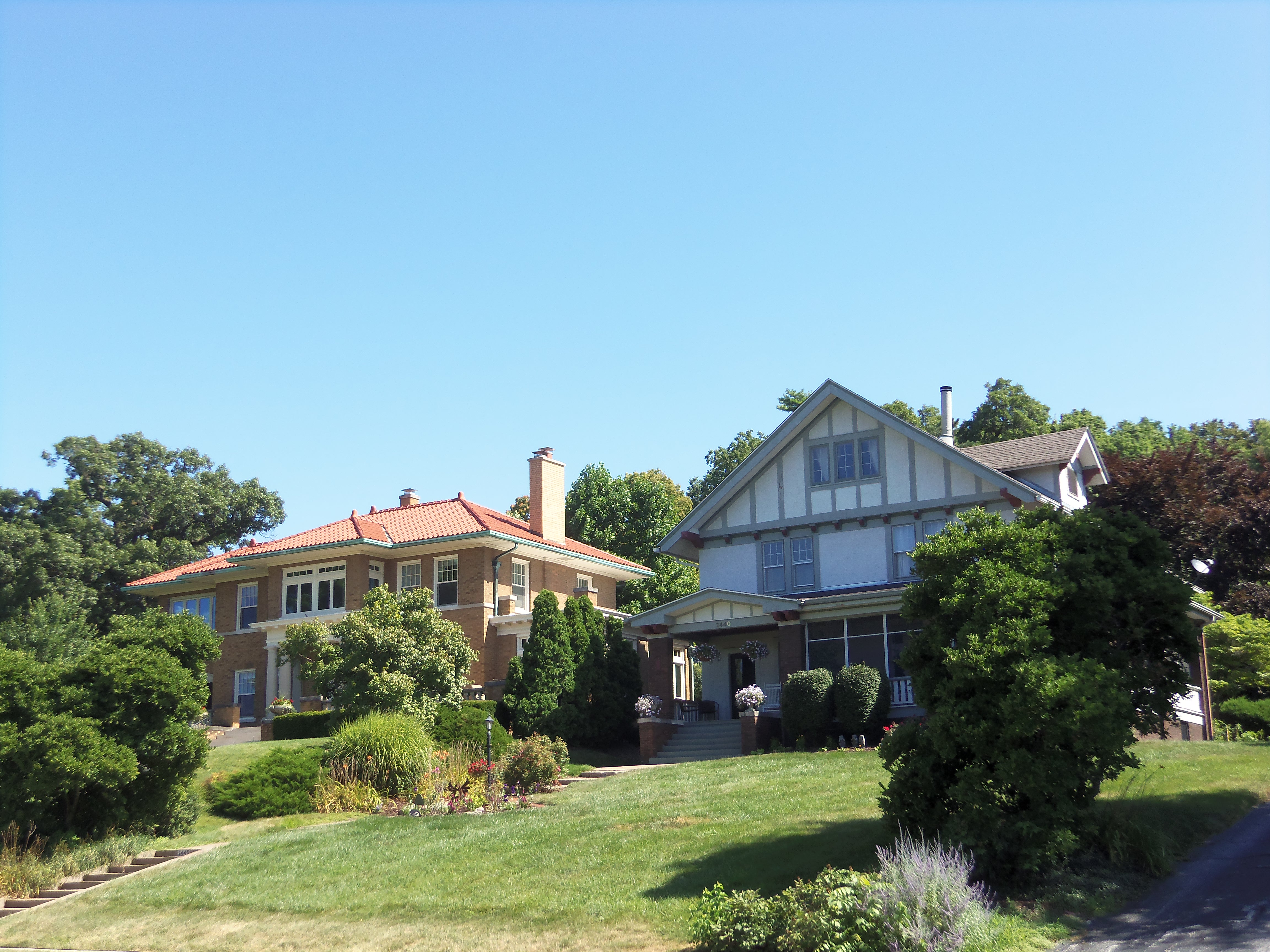 Houses on River Street overlooking Lindsey Park in the McClellan Heights Historic District in Davenport, Iowa. It is listed on the National Register of Historic Places.